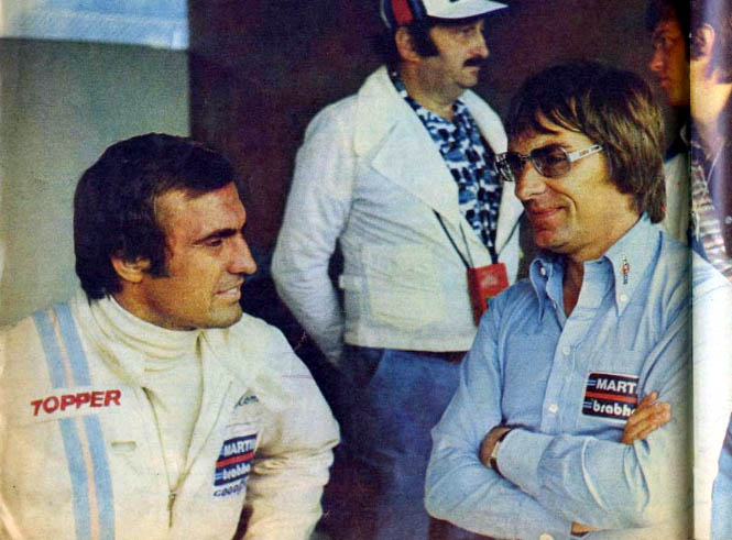 Argentine driver Carlos Reutemann (left) with Bernie Ecclestone at the Austria Grand Prix.